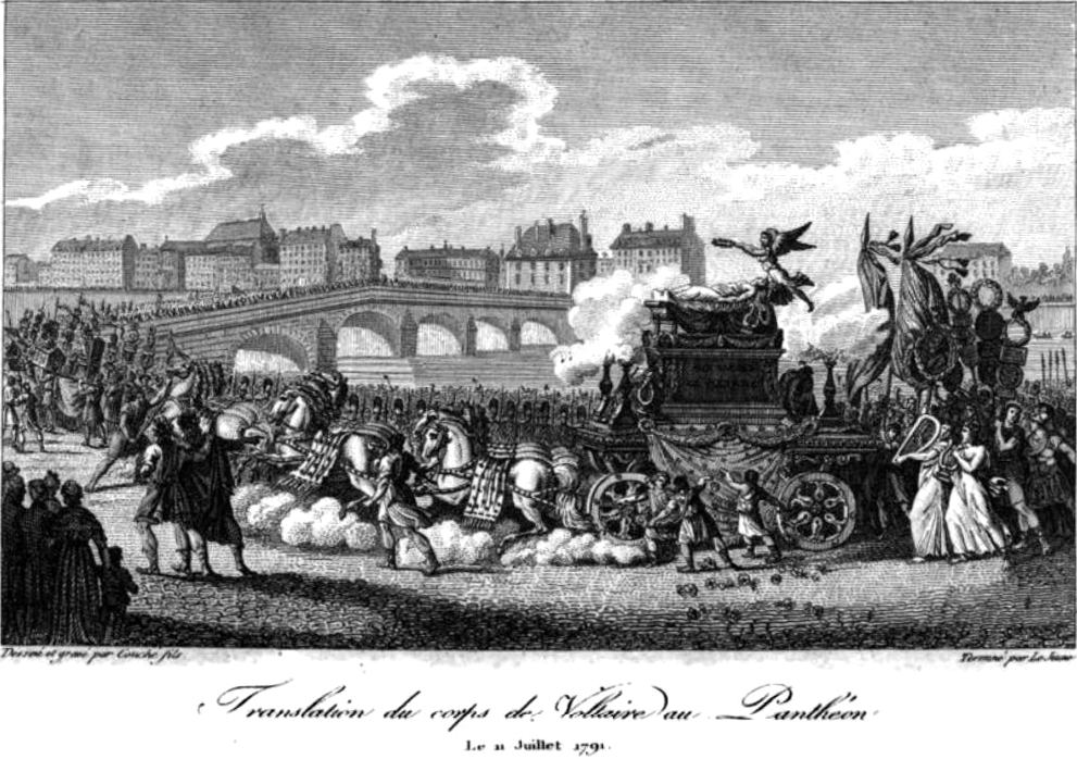 The Transfer of Voltaire to the Panthéon of Paris on July 11, 1791.